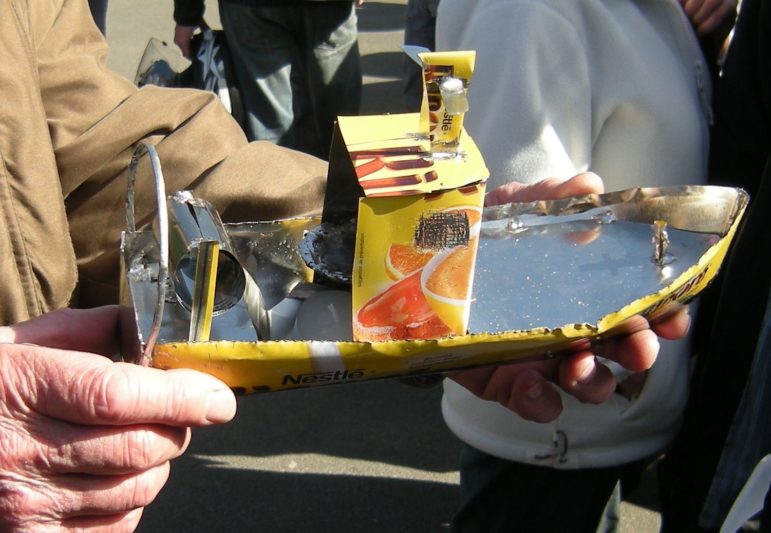 Pop-pop fishing boat made of tin for Loguivy-de-la-Mer World championship of pop-pop boats of 2009. (Ploubazlanec, Bretagne, France)